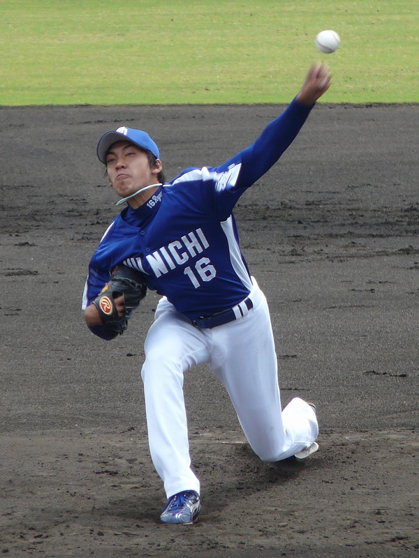 Ryuya Ogawa, pitcher of the Chunichi Dragons, at Hanshin Naruohama Baseball Ground.